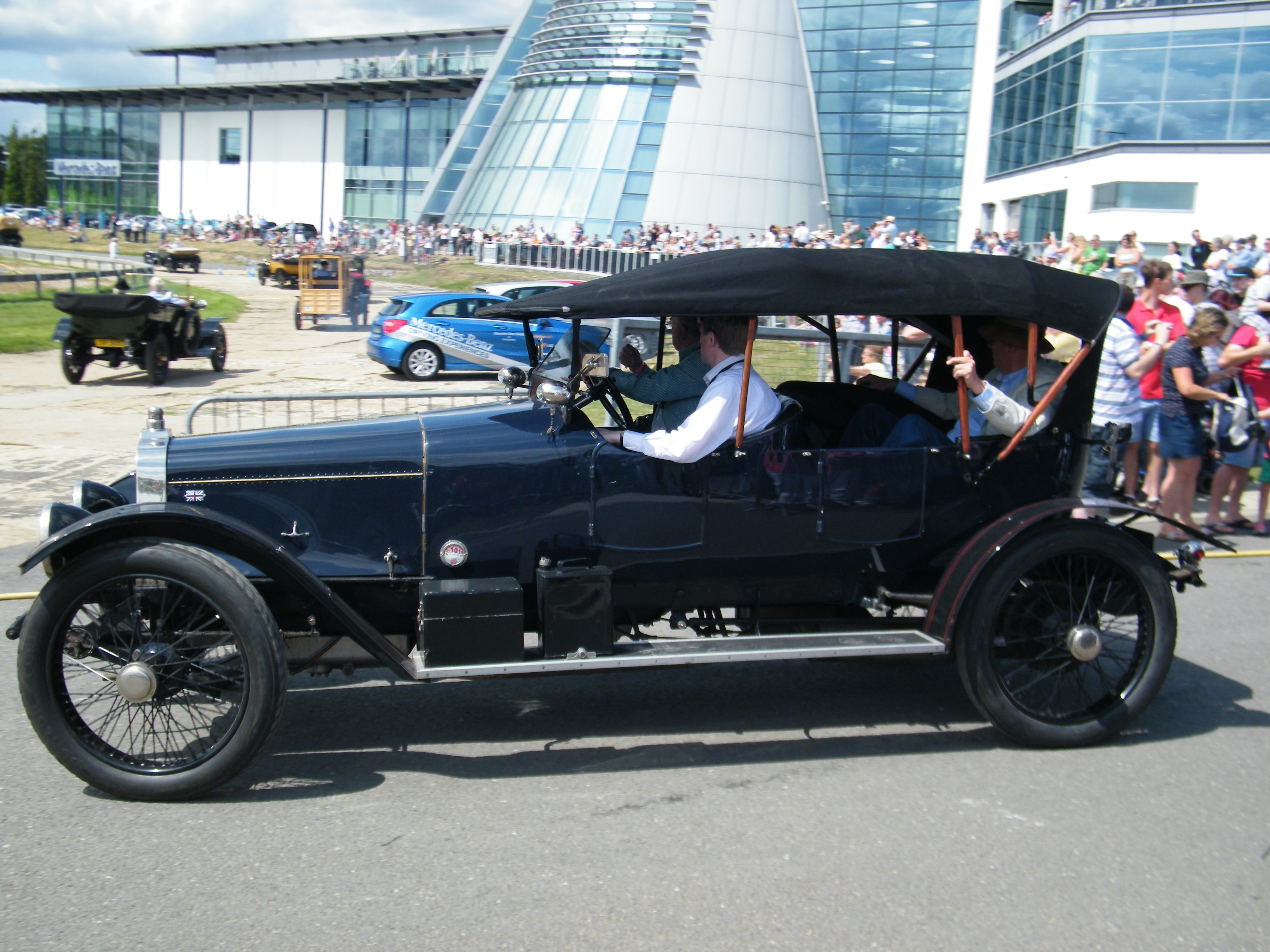 1915 Talbot 25-50 tourer registration D75? GW100 Cavalcade at Mercedes-Benz World